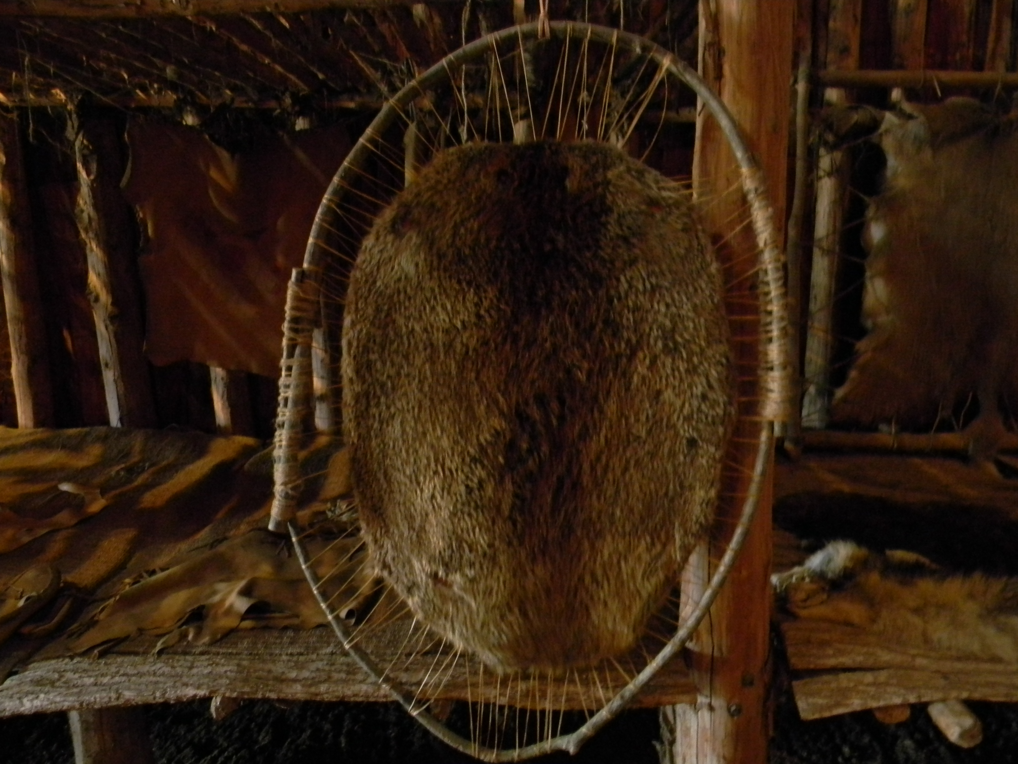 Inside the Longhouse - Iroquoian Village, Ontario, Canada. The 15th century Iroquoian Village was reconstructed on its original site. This village is located along the traditional boundary between the Wendat (Huron) 13th, 14th and 15th centuries and Attiwandaron (Neutral) people 15th, 16th and 17th centuries. As per archeological facts this area was occupied by ancestors of both of these Nations at various time period.